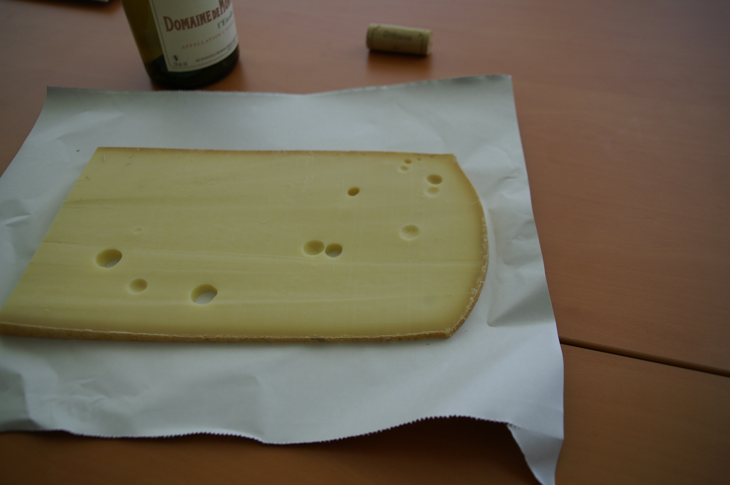 Slice of french gruyère (protected by IGP_Indication Protected Geographical name), Vosges, French Jura Mountains, French Alps. Small holes characteristics of this cheese made from raw milk pressed cheeses are visible.